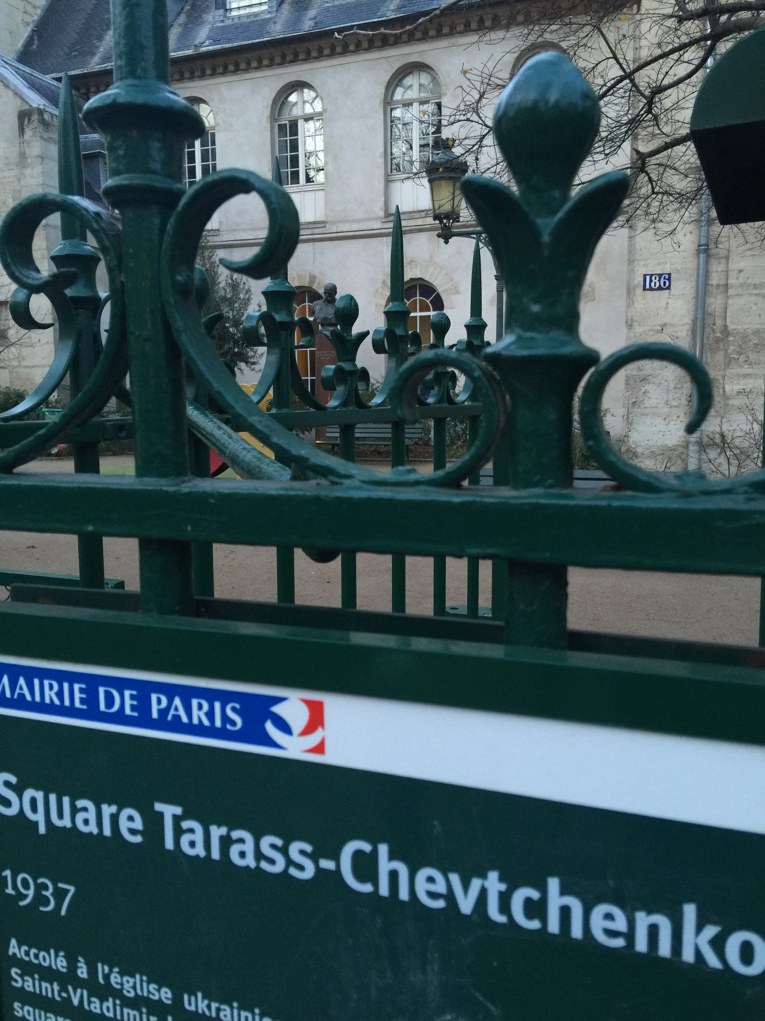 The Diocese of St. Vladimir the Great in Paris for Ukrainian Greek Catholics in France, Belgium, the Netherlands, Luxembourg and Switzerland